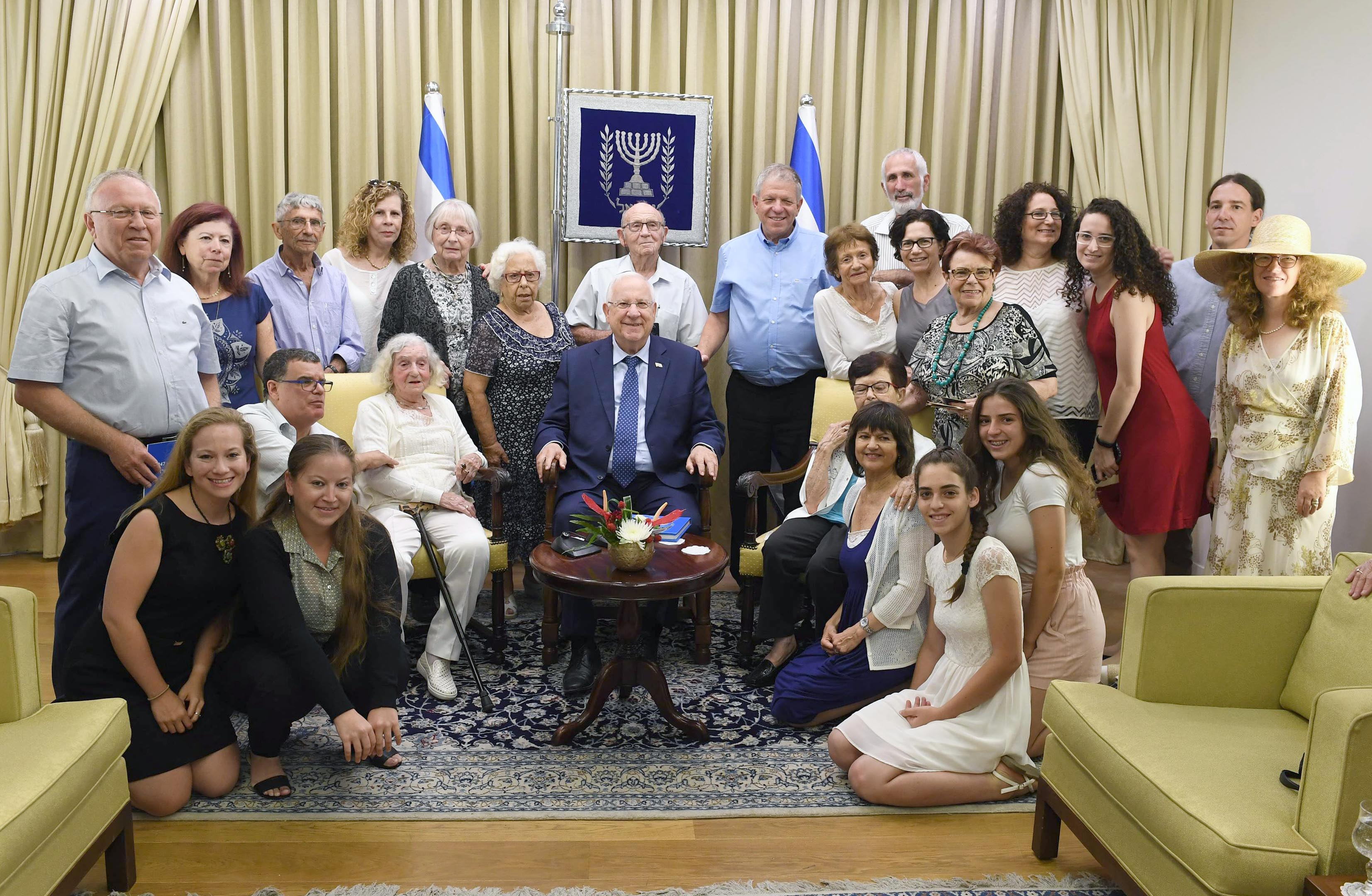 President of the State of Israel, Reuven Rivlin, hosts a dozen immigrants from the Exodus ship (Jewish immigrant ship), the Exodus from Europe 5707, marking the 70th anniversary of its voyage to Eretz Israel Sunday, July 23, 2017. Photo Credit Mark Nayman / GPO.